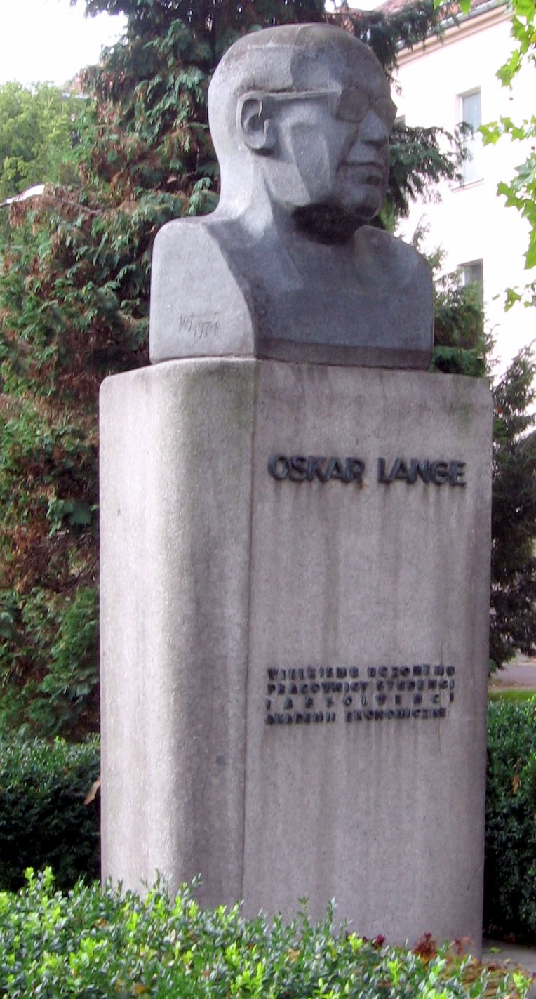 Oskar Lange monument at the Wrocław University of Economics.